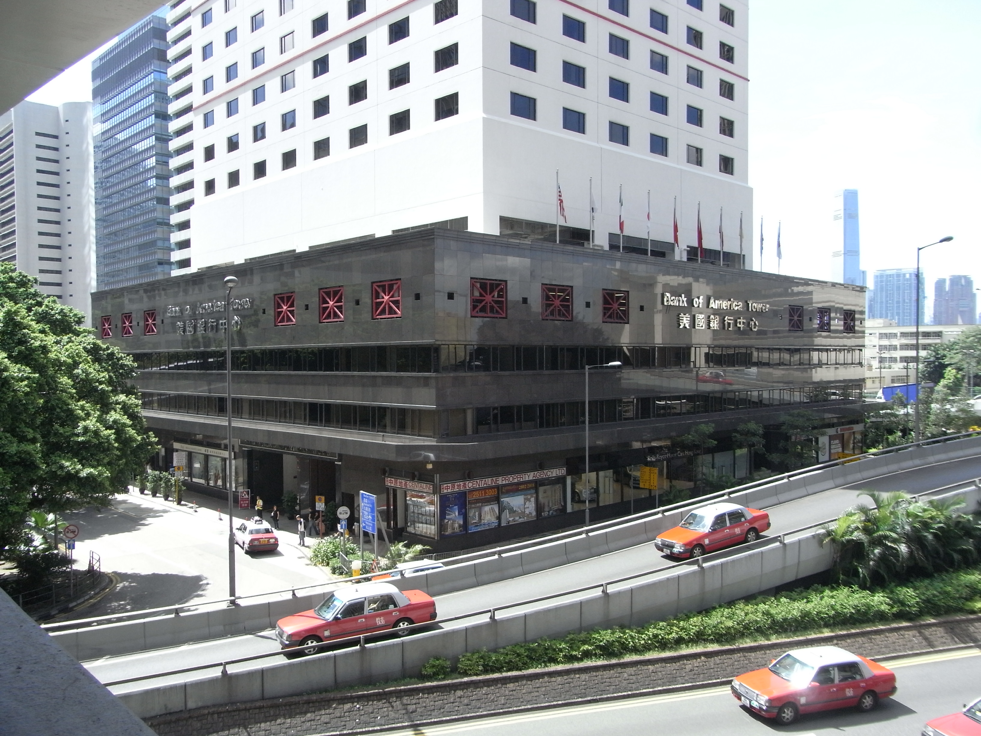 金鐘2010年7月 紅棉路 美國銀行中心 (香港)